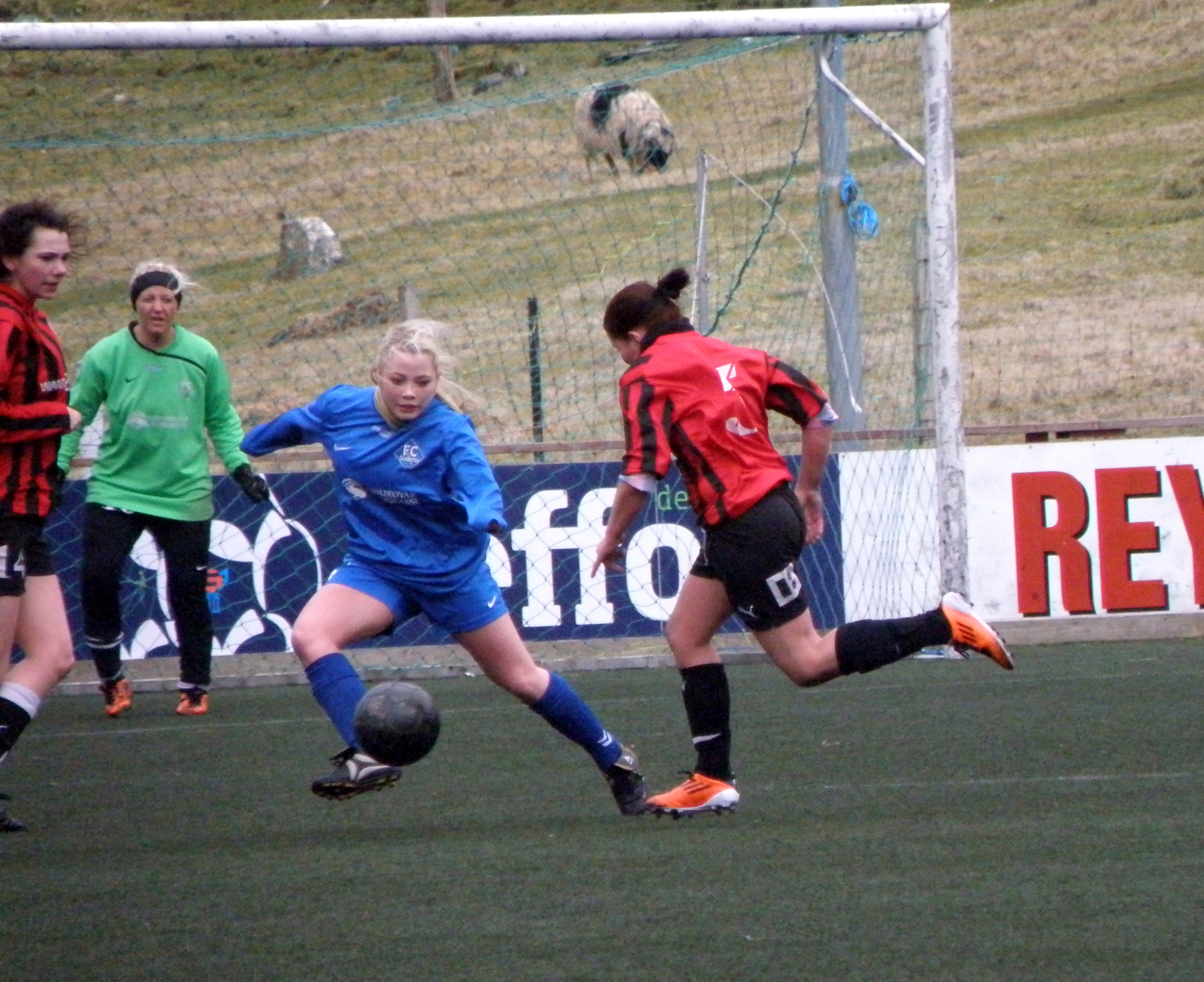 Football match in the women's Faroe Islands Cup 2012 between FC Suðuroy and HB Tórshavn. HB won the match 8–1.